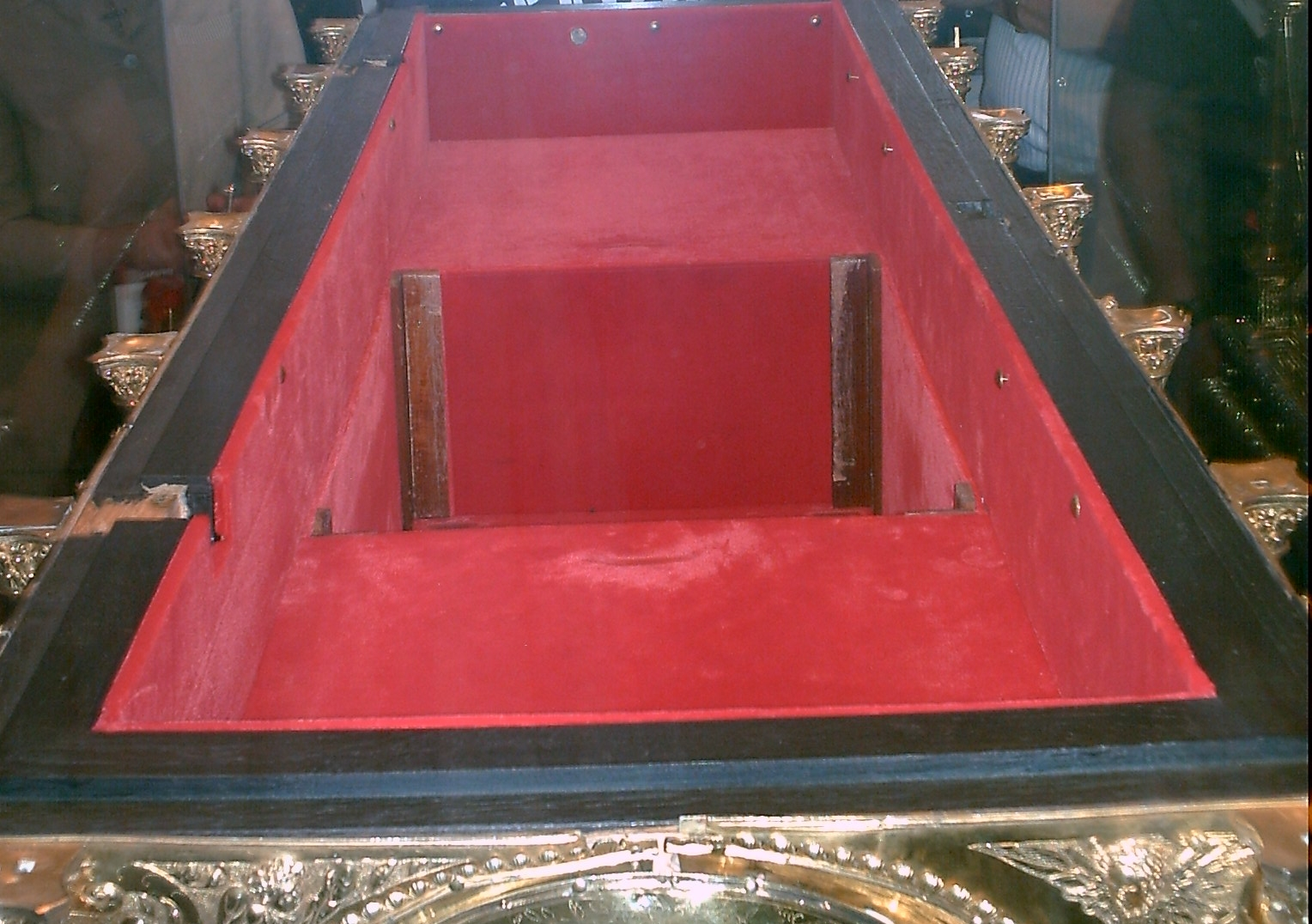 Shrine of St. Liborius. An absolut exception: The shrine has been opened for restauration in the year 2009. Therefore fails the cover. The shrine is exposed in the Erzbischöflichen Diözesanmuseum Paderborn